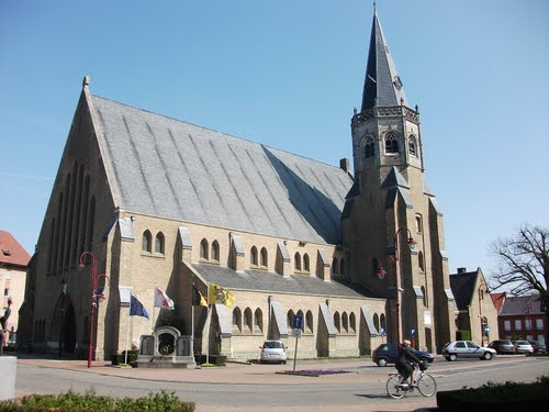 The Sint-Martinuschurch of Ardooie